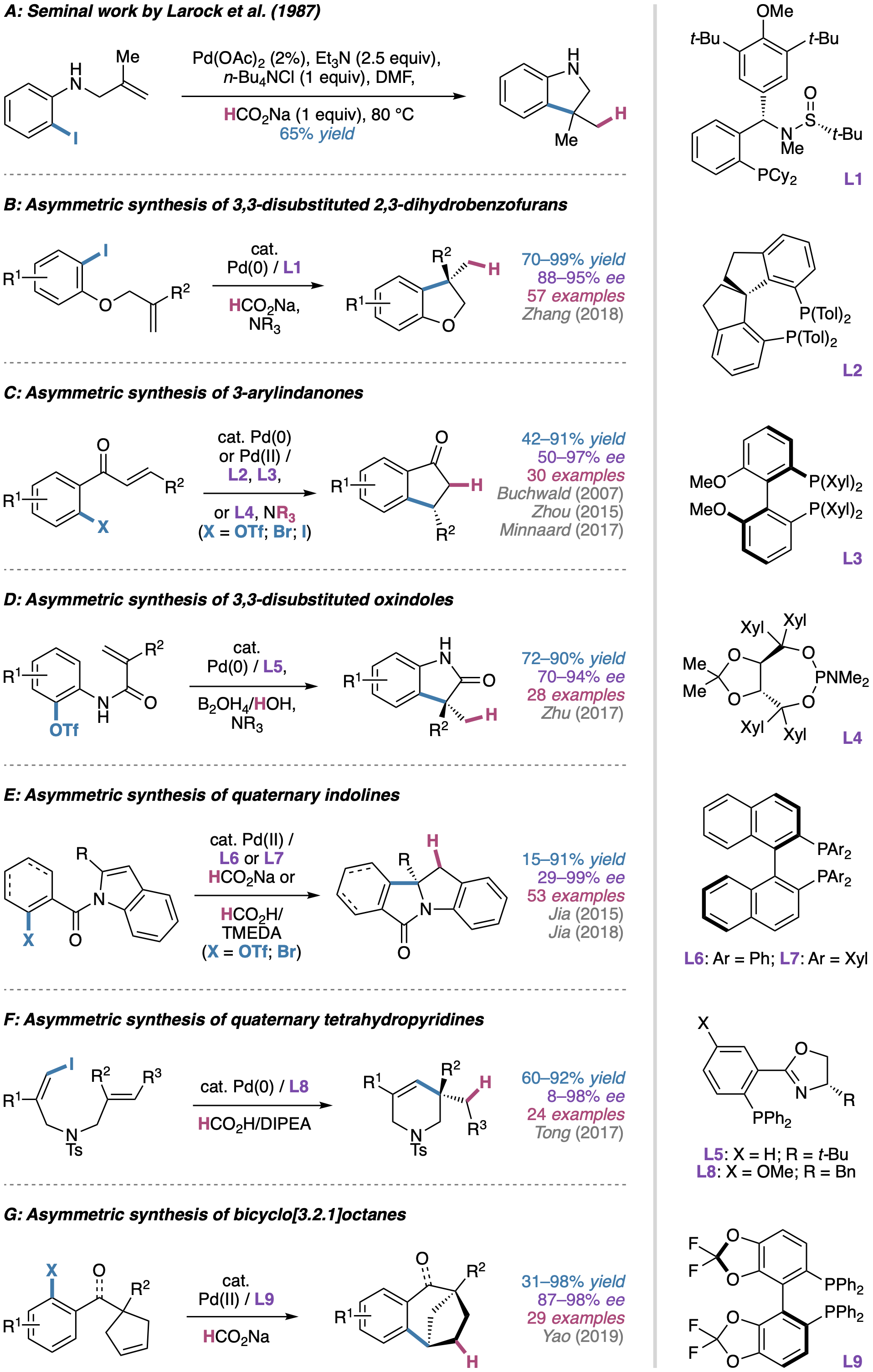 Reactions with Tethered Alkenes. (A) Larock’s seminal work on heterocycle synthesis using the reductive Heck reaction. (B) The asymmetric reductive Heck cyclization to form 3,3-disubstituted 2,3-dihydrobenzofurans. (C) The asymmetric reductive Heck cyclization to access 3-arylindanones. (D) The asymmetric reductive Heck cyclization to form 3,3-disubstituted oxindoles. (E) The asymmetric reductive Heck cyclization to access quaternary indanones. (F) The asymmetric reductive Heck cyclization to form quaternary tetrahydropyridines. (G) The asymmetric reductive Heck cyclization to access bicyclo[3.2.1]octanes.